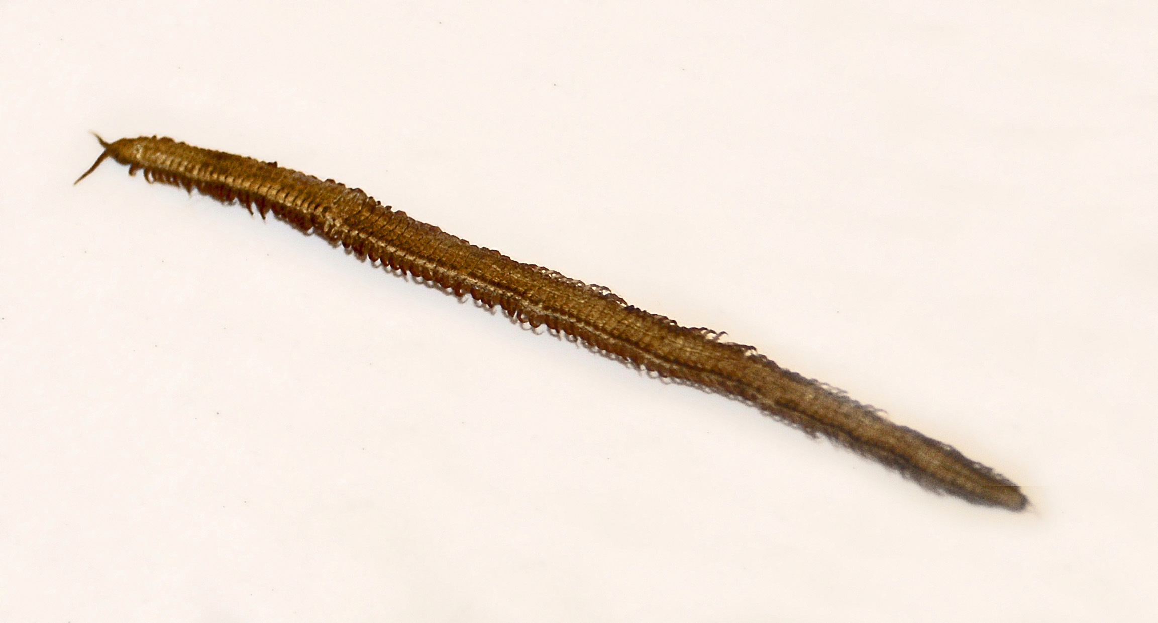 Orya barbarica from Tunisia. Museum specimen